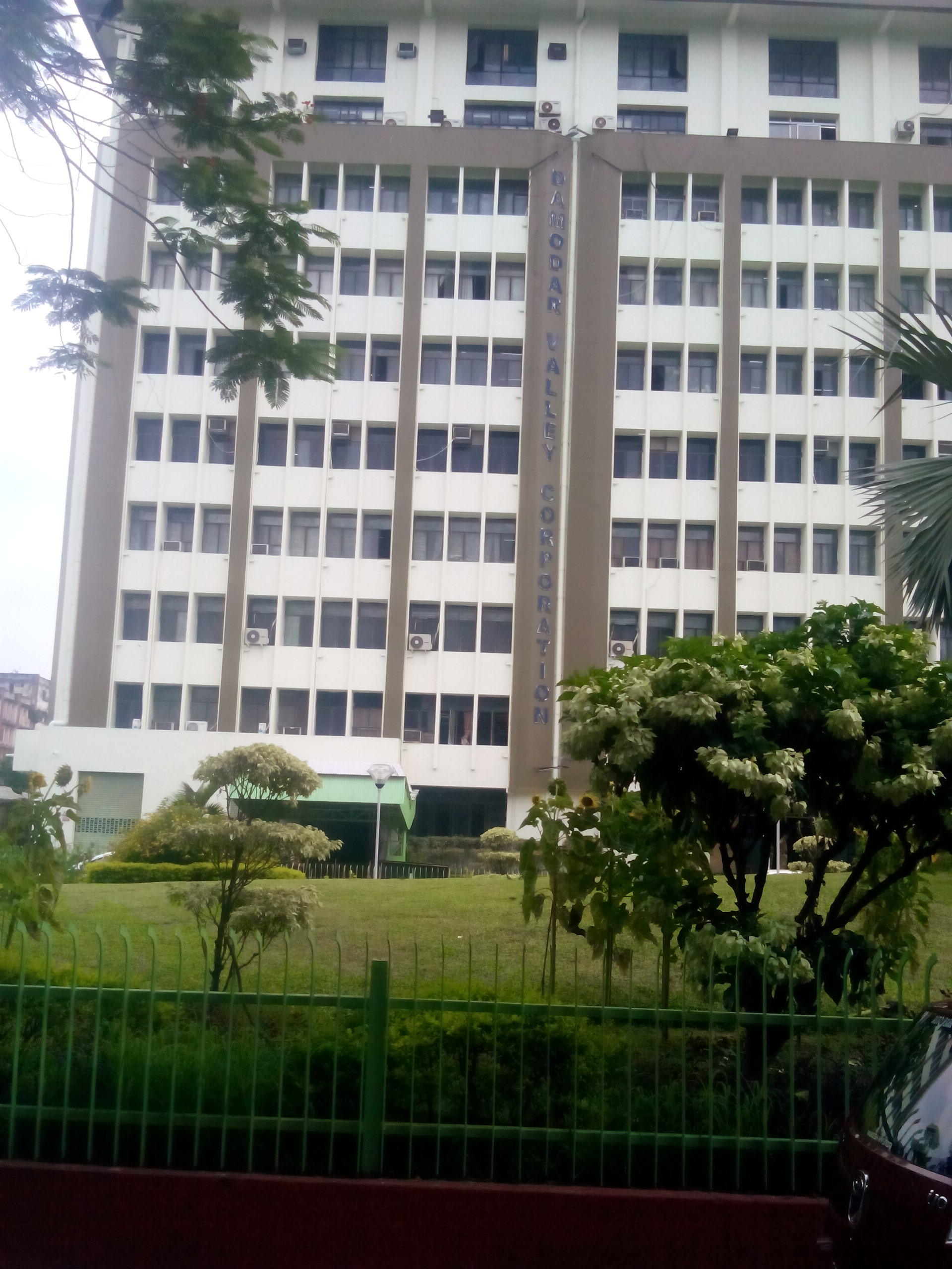 D V C Headquarter in Kolkata